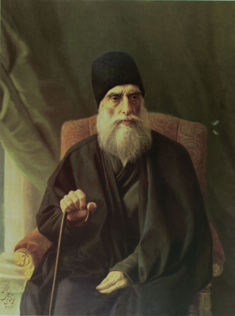 Painting of Ali Reza Khan Azod al Molk by Kamal-ol-molk.